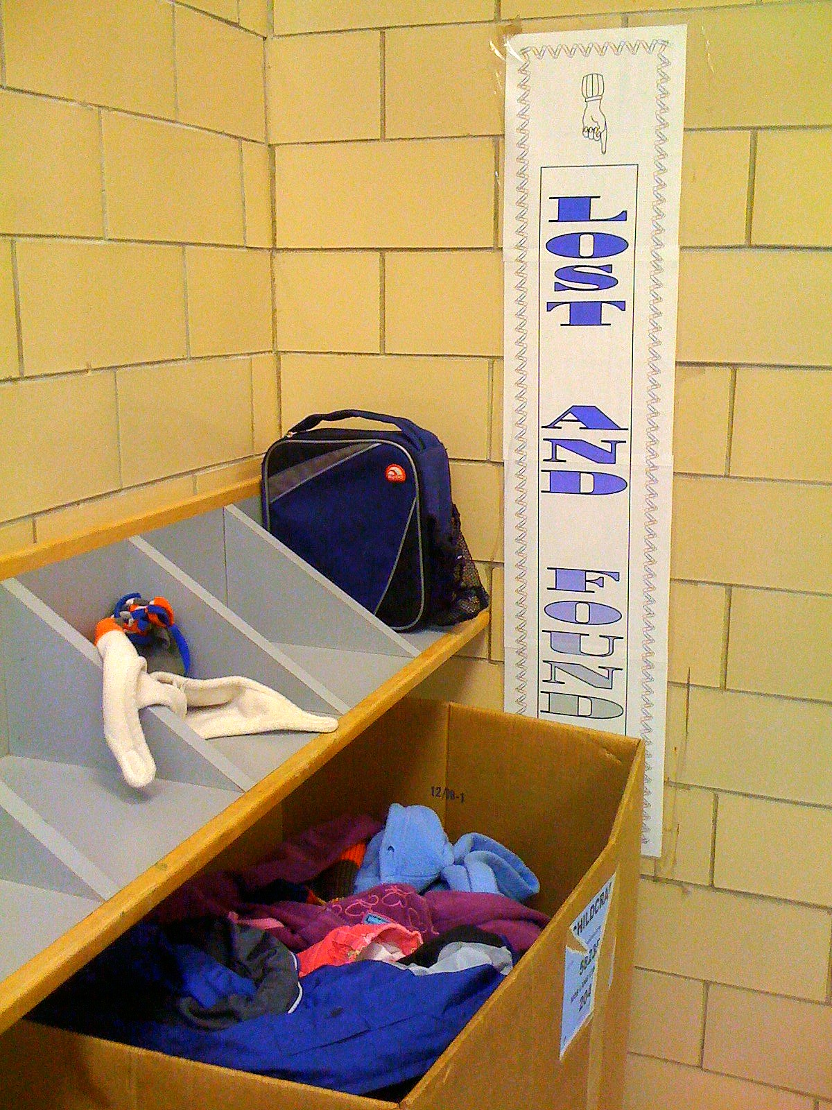 Noticed That The Owners Need to Start Finding Their Lost Items